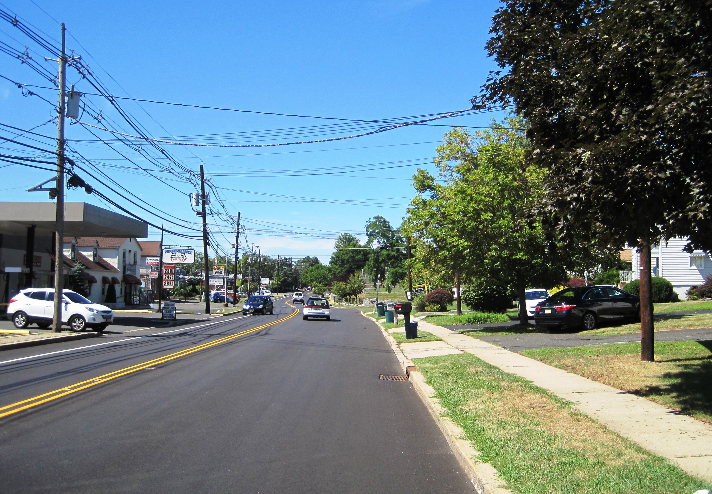 Photo of Bradley Gardens, New Jersey, a census designated place within Bridgewater Township. Photo taken along southbound Old York Road (County Route 567) at Maple Street.